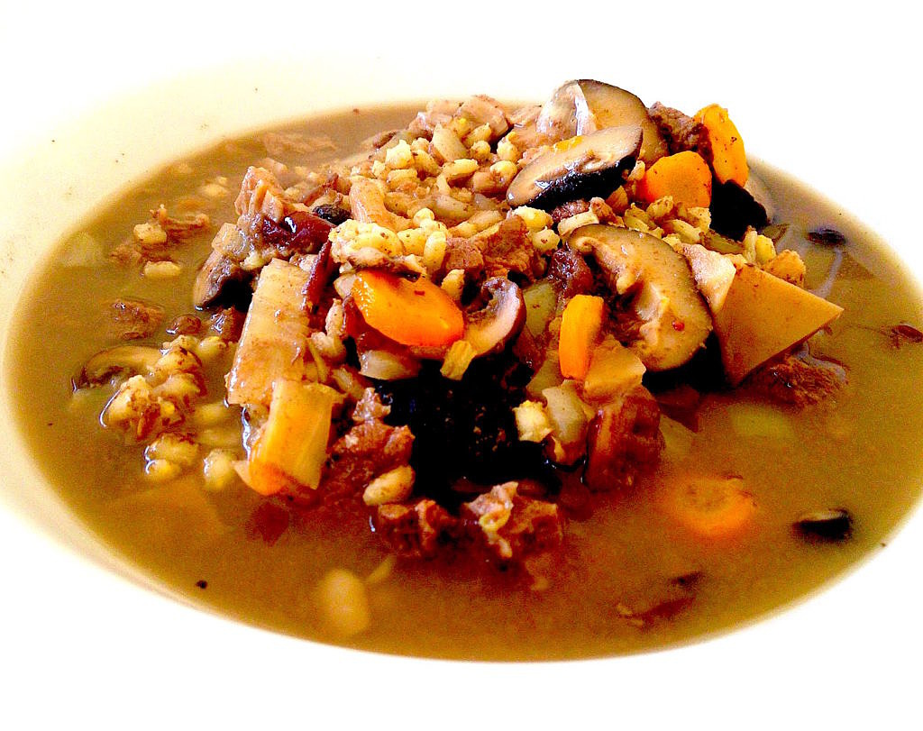 Suaasat (Greenlander dish)